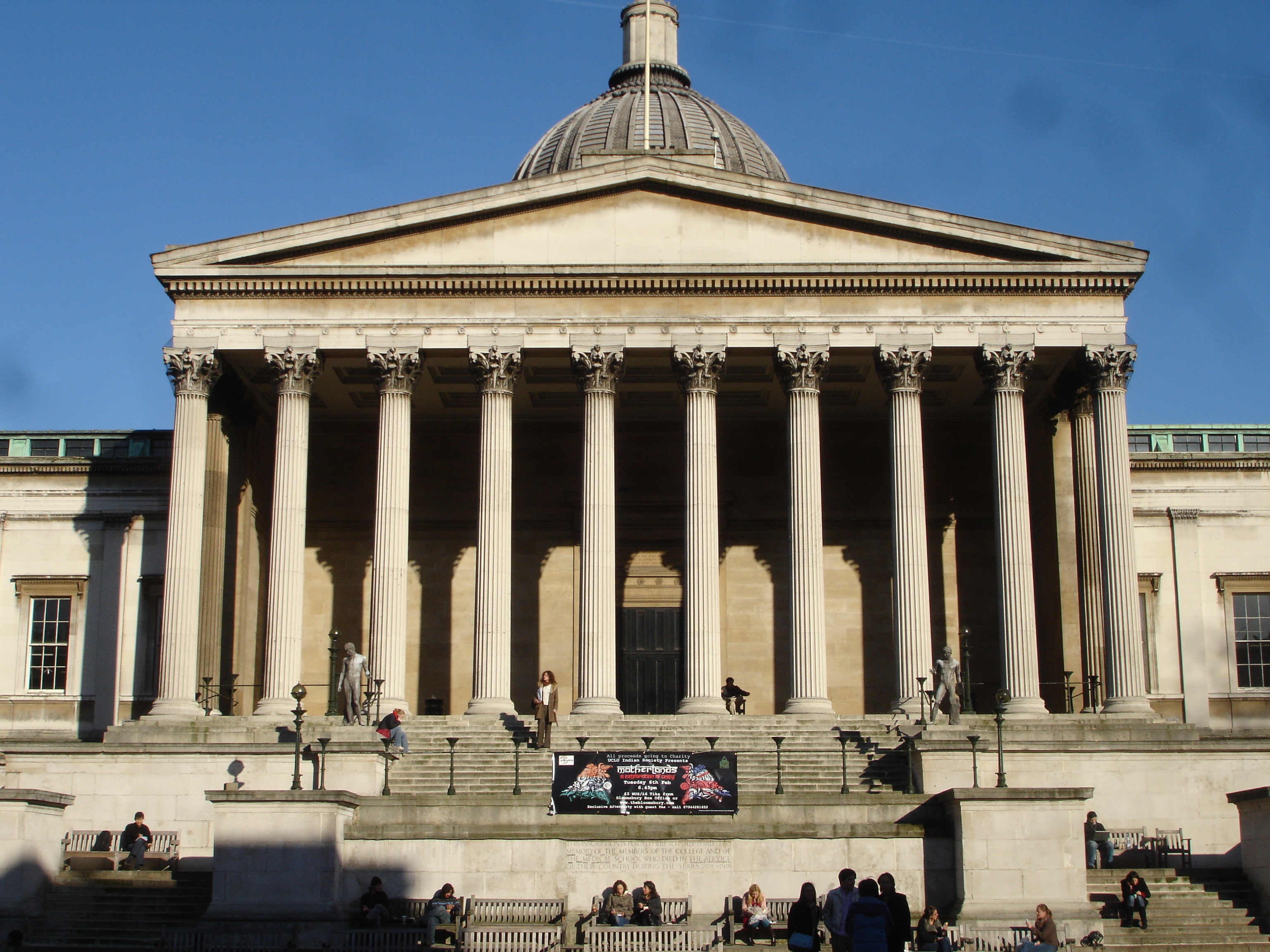 Own Personal Photography. 2007. The image is of the portico building, University College London.